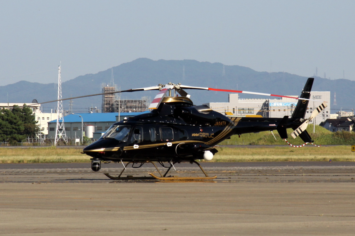 c/n 49115, Chukyo TV Broadcasting Nagoya Airfield